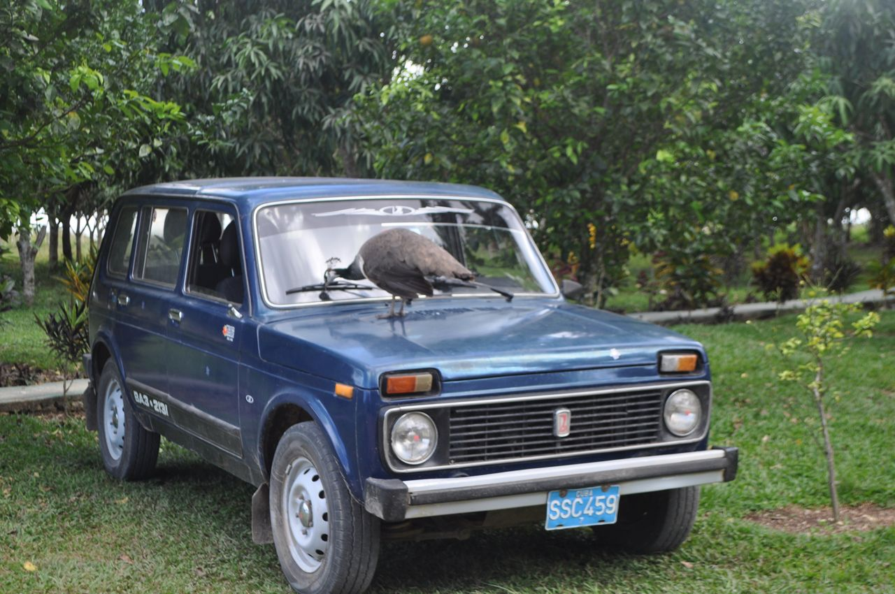 Lada Niva 5-door Wagon (Cuba)